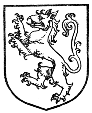 Fig. 322.—Heraldic tyger rampant.